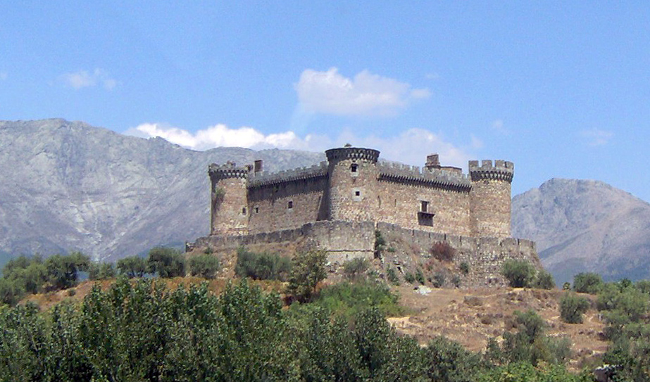 Castillo de Mombeltrán